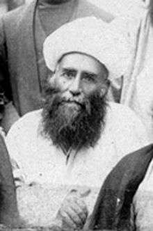 Shaykh Mirza Hussain Noori Tabrasi